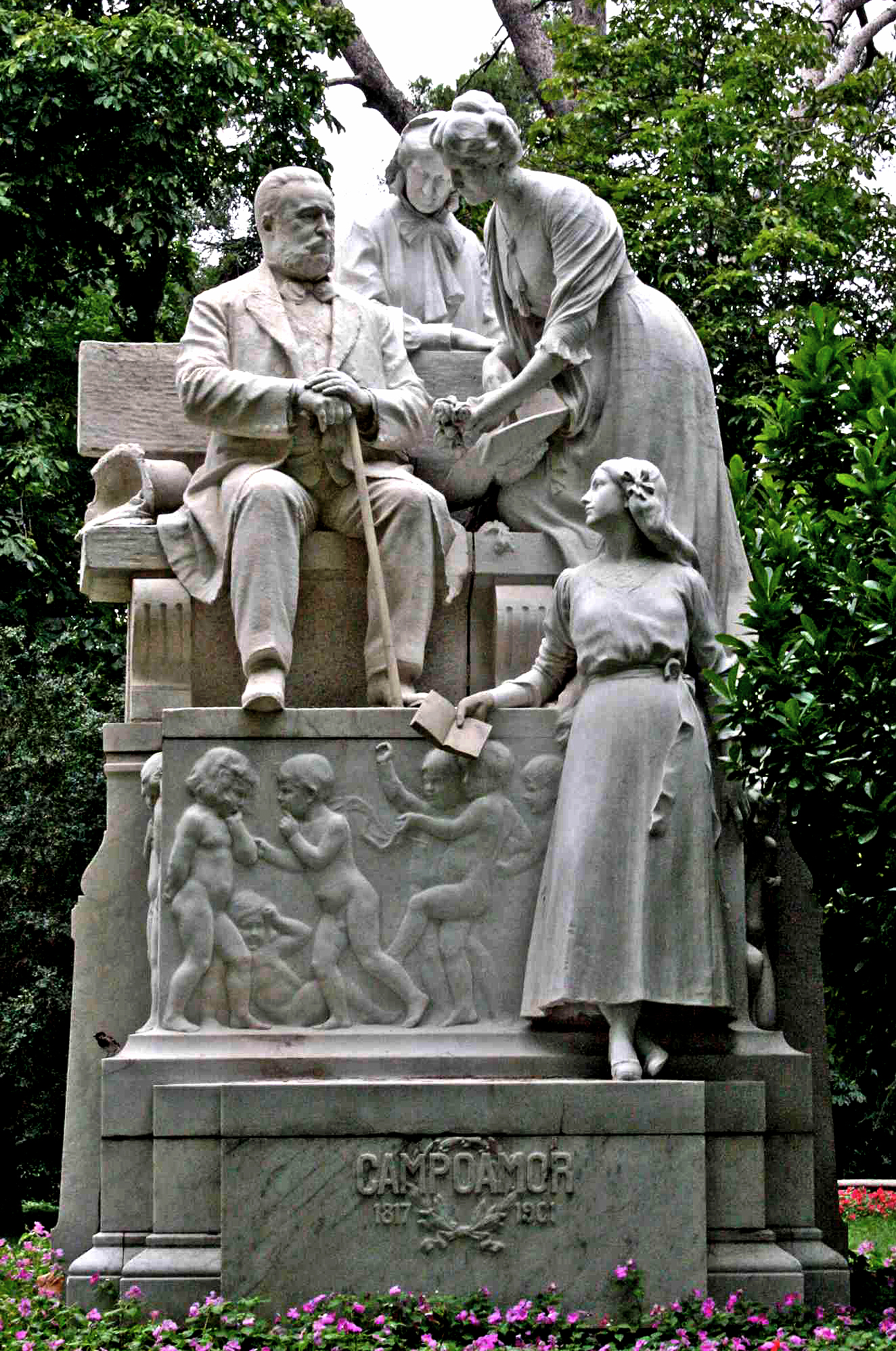 Statue of Ramon de Campoamor in Retiro Park in Madrid, Spain.